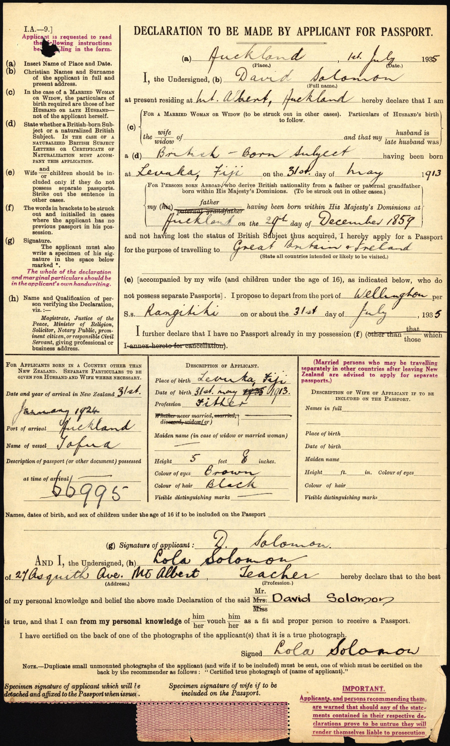 Archives New Zealand Reference: ACGO 8333 IA1 1350 / 15/11/59182